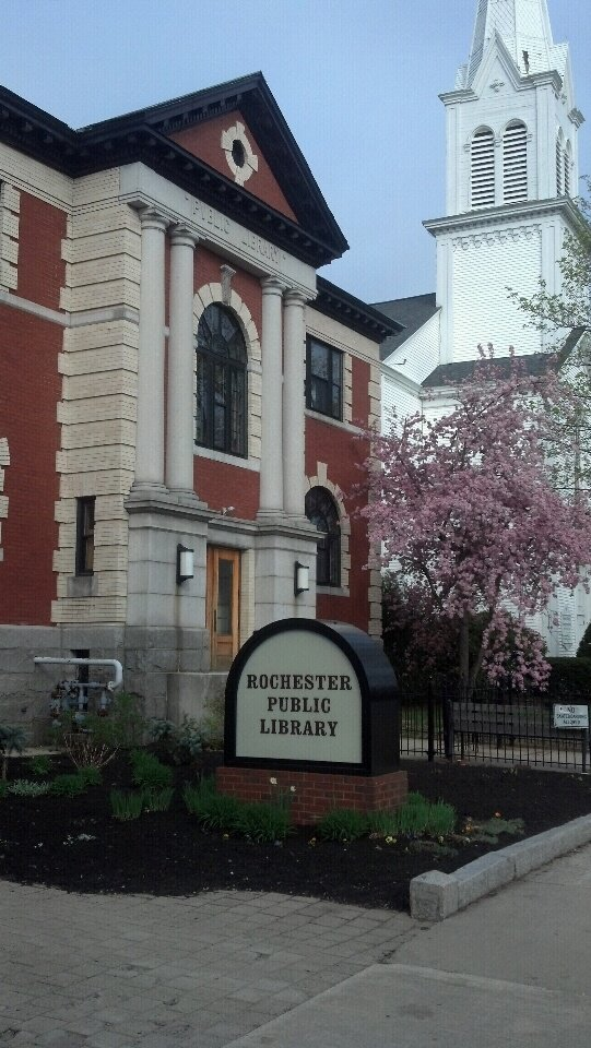 The Rochester Public Library in New Hampshire